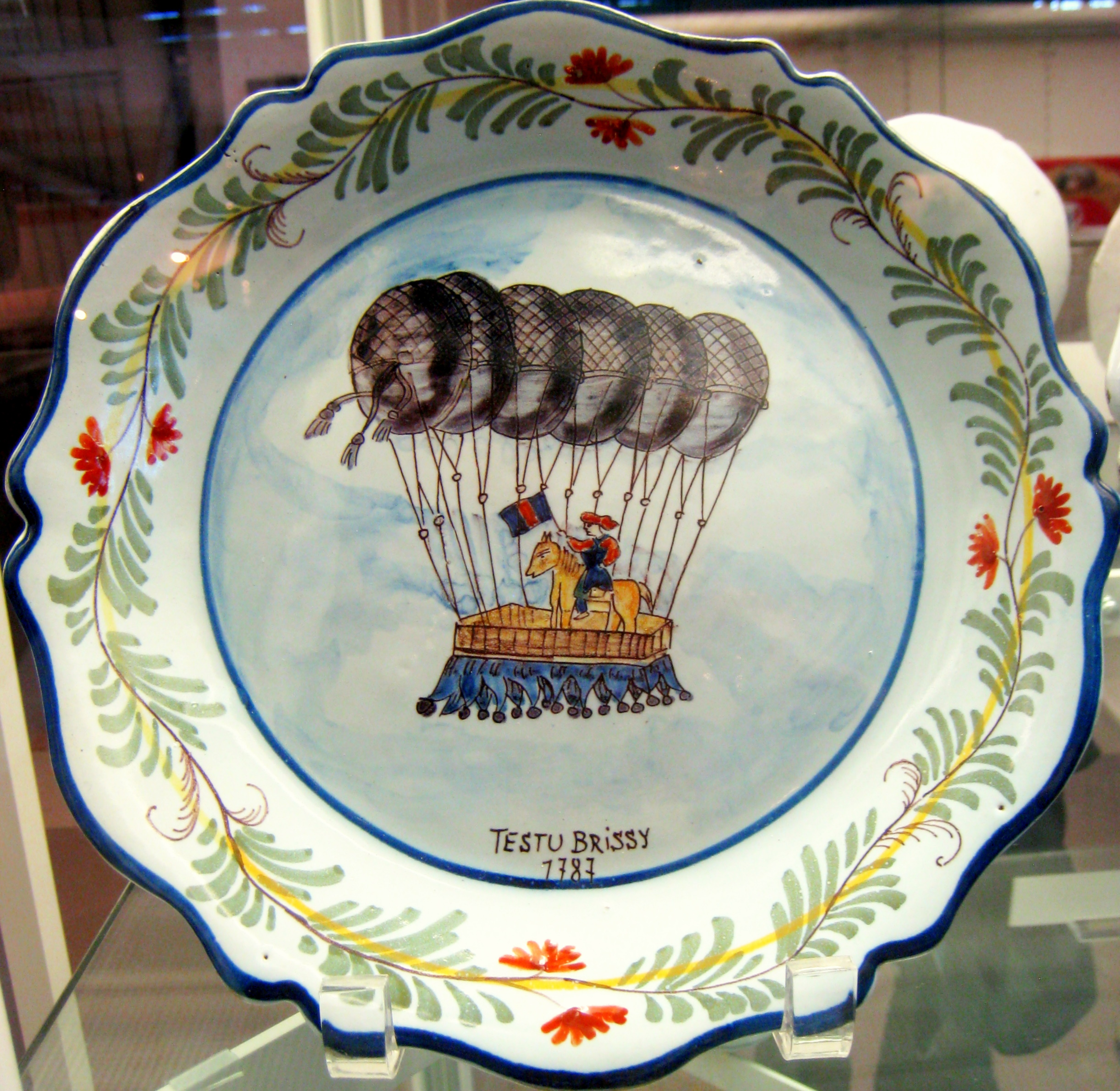 Pierre Testu-Brissy 1787 plate - Udvar-Hazy Center, Dulles International Airport, Chantilly, Virginia, USA. French plate from the 1800s.